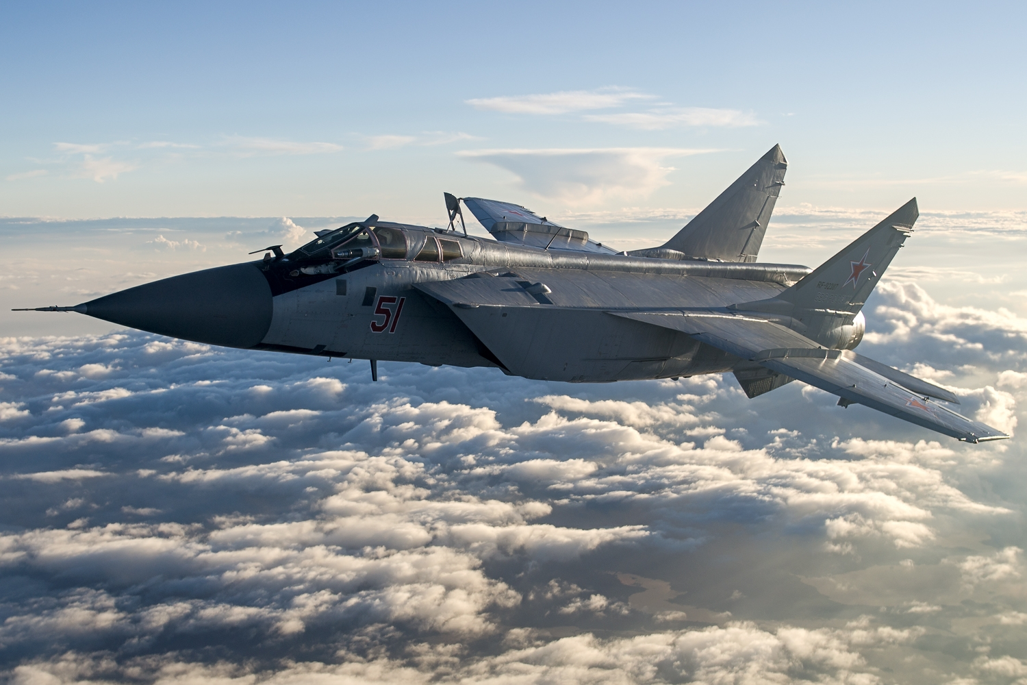 Mikoyan-Gurevich MiG-31BM